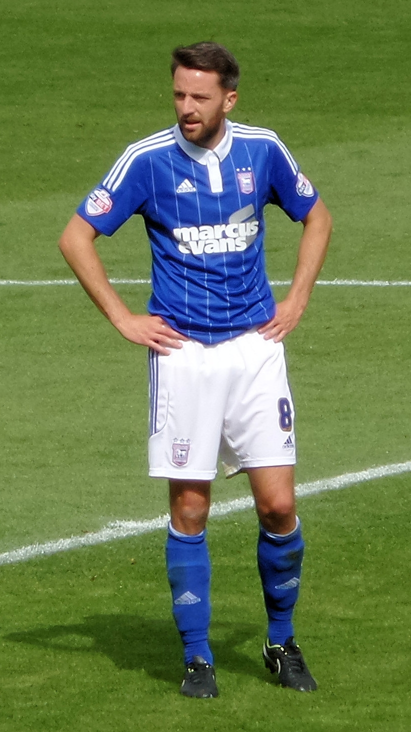 Cole Skuse playing for Ipswich Town against Sheffield Wednesday on 15 August 2015